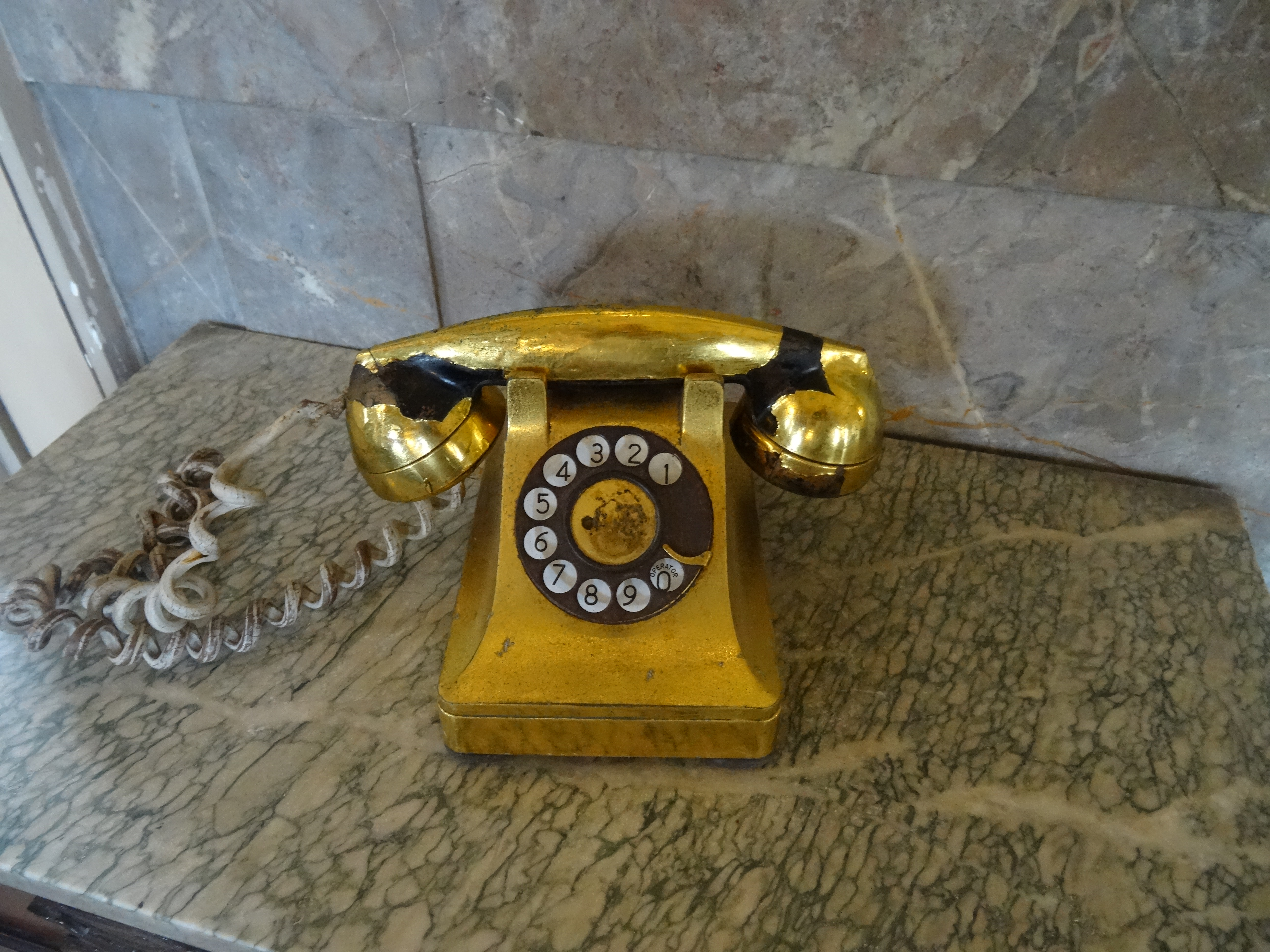 Museo de la Revolución, Havana, Cuba: Gold-coated telephone given as a gift to Batista by the International Telegraph and Telephone Company (ITT)